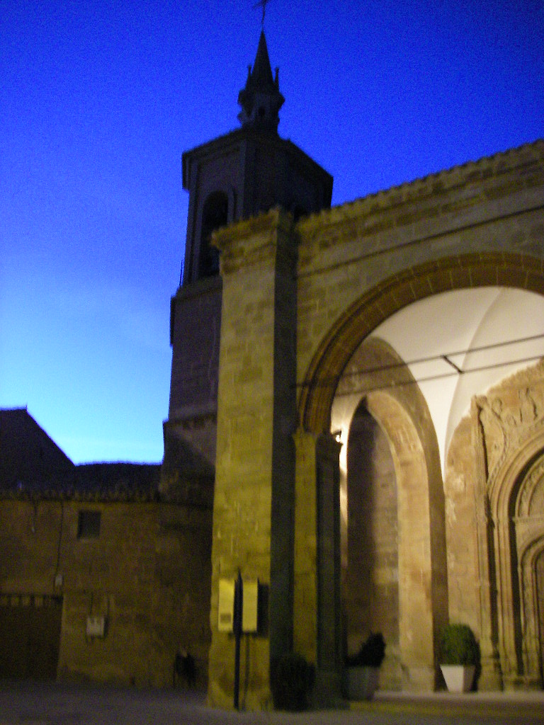 View of the church of Sotés